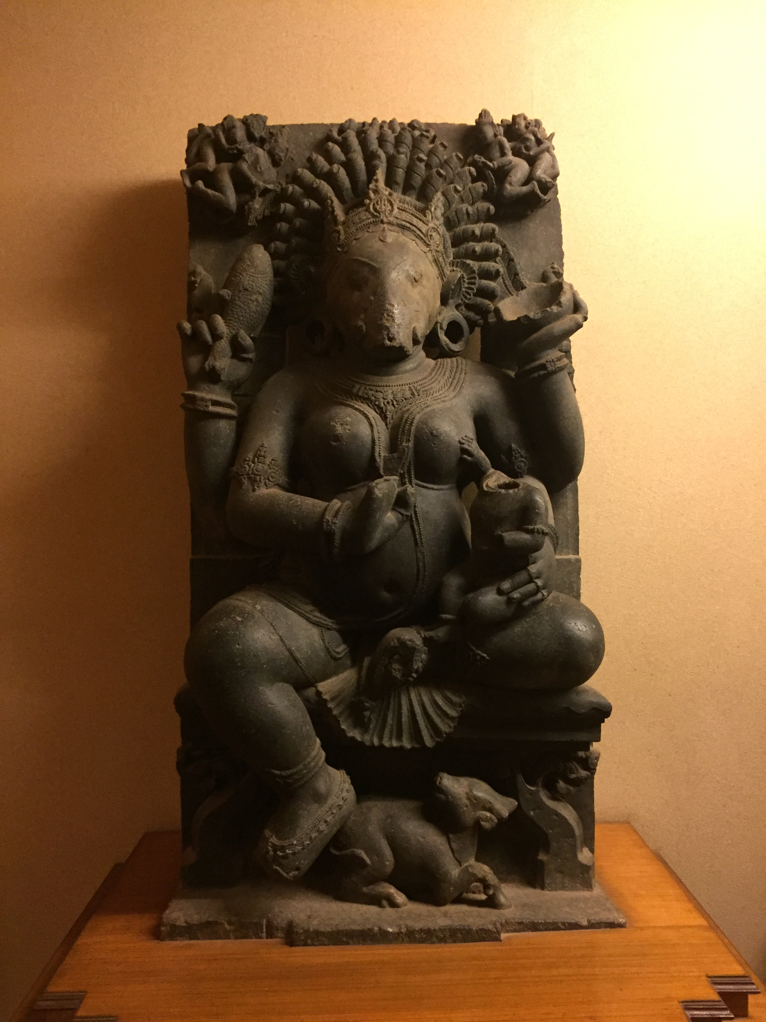 Rock carved or metal carved sculptures in traditional Kalingan or Odia style.